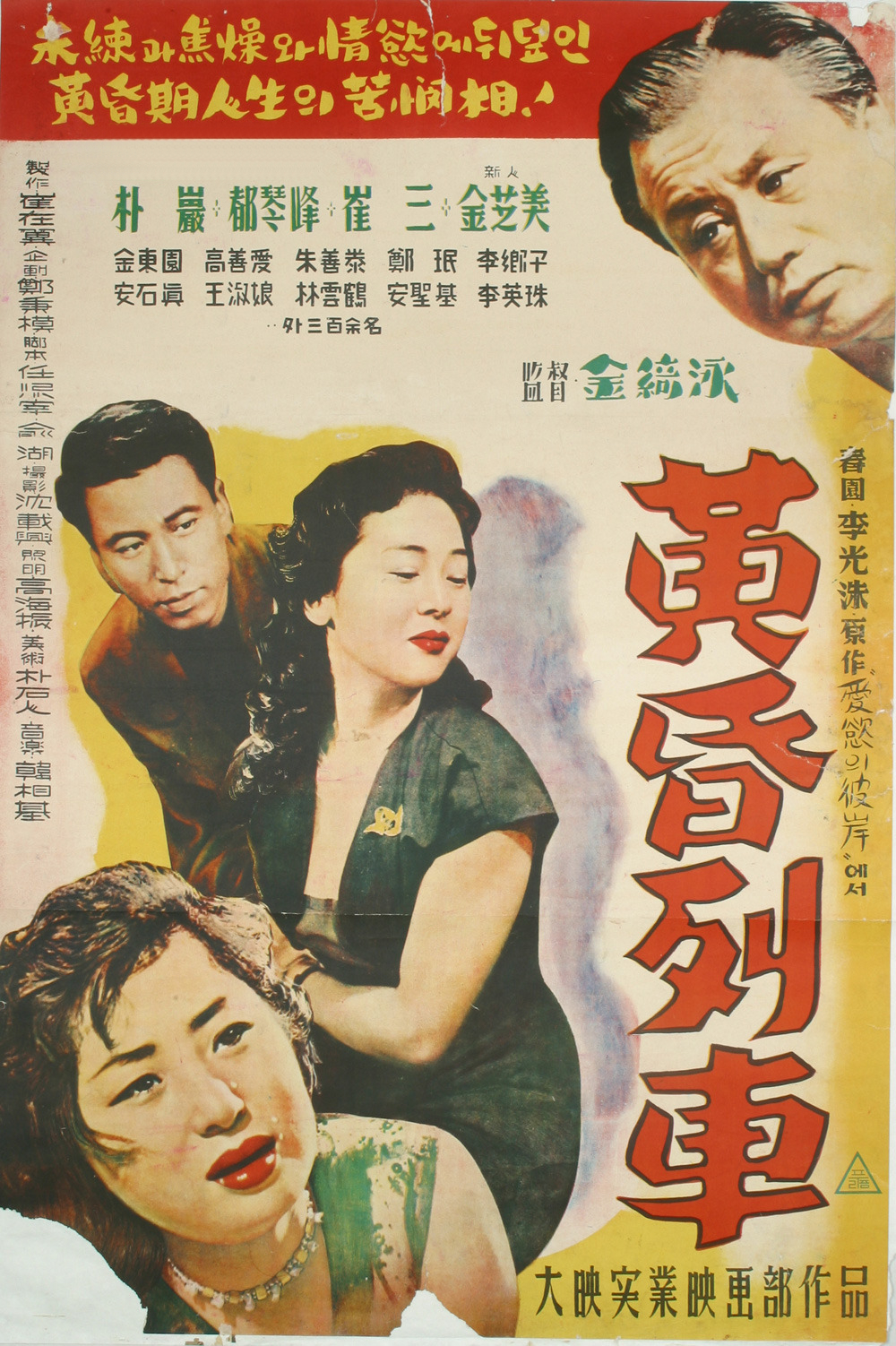 1957 movie poster for 1957 Korean movie Twilight Train (황혼열차 Hwanghon yeolcha).